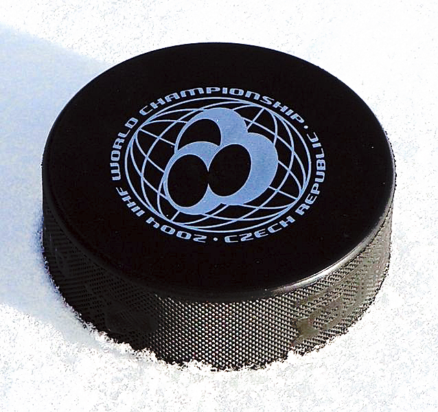 Hockey puck